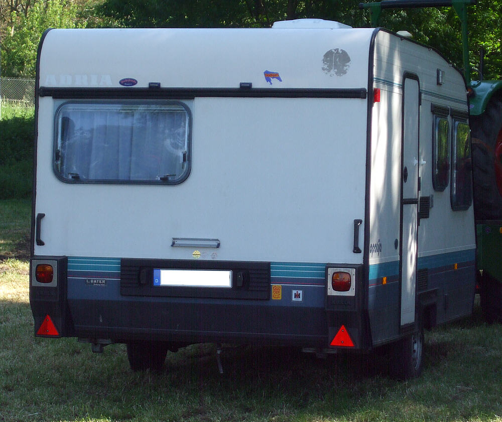 Adria travel trailer „Opatija“